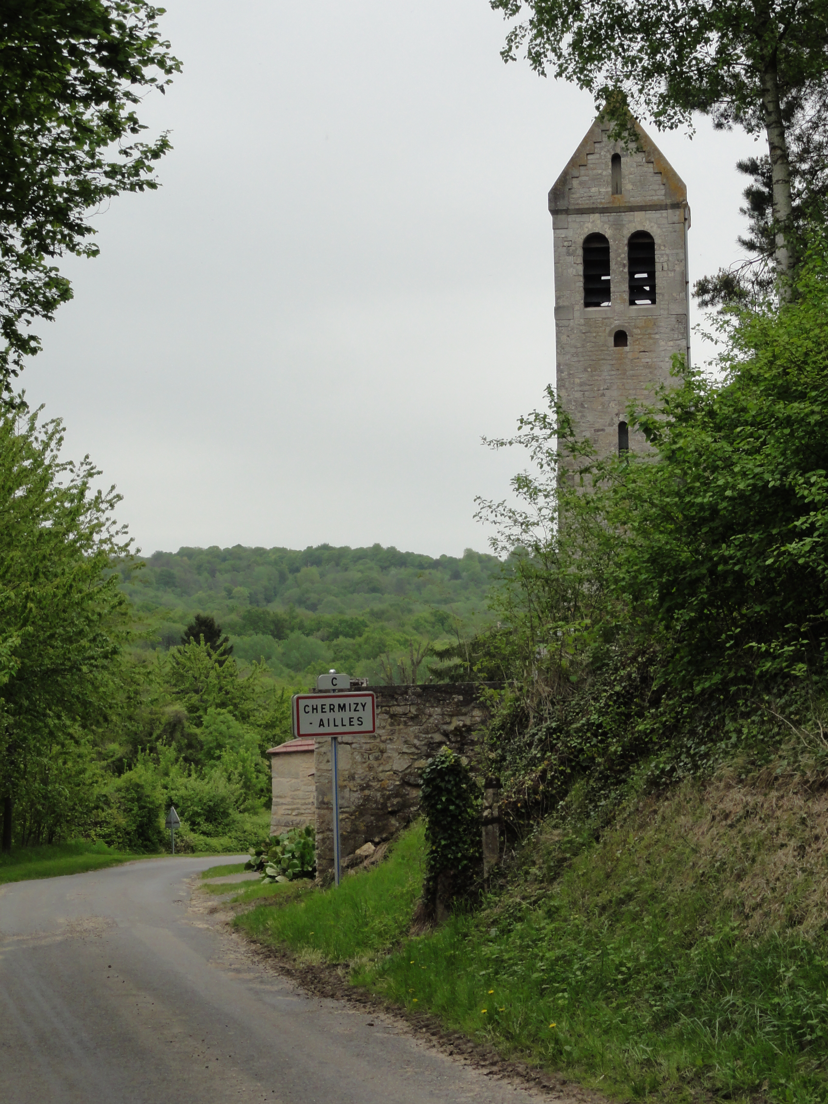 Chermizy-Ailles (Aisne) city limit sign et tour de l'église